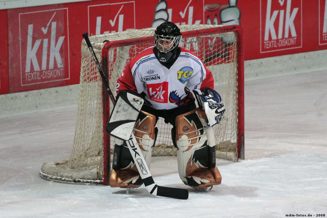 EHC Dortmund - Goalie: Thomas Franta #2